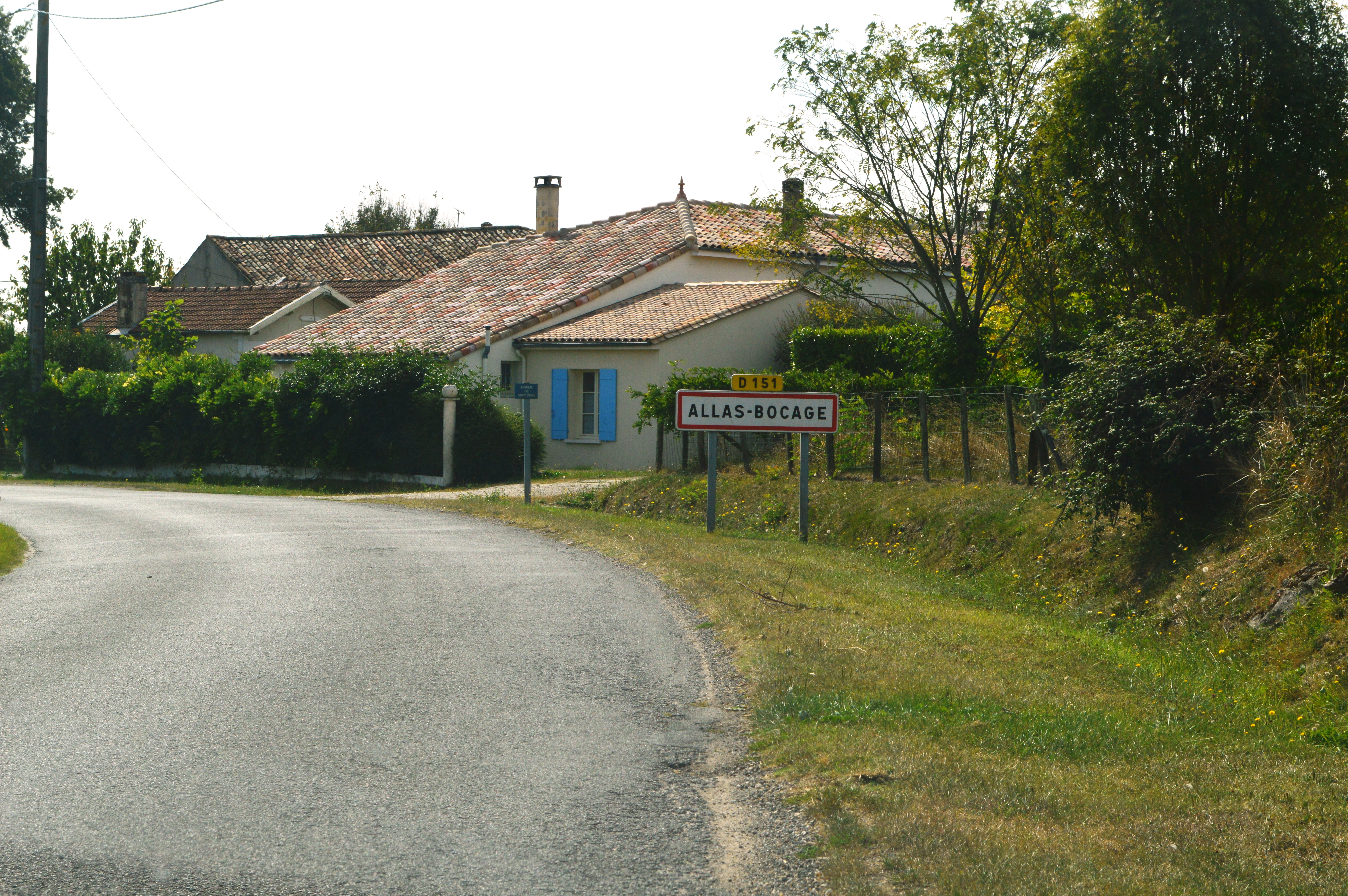 The entry to Allas-Bocage